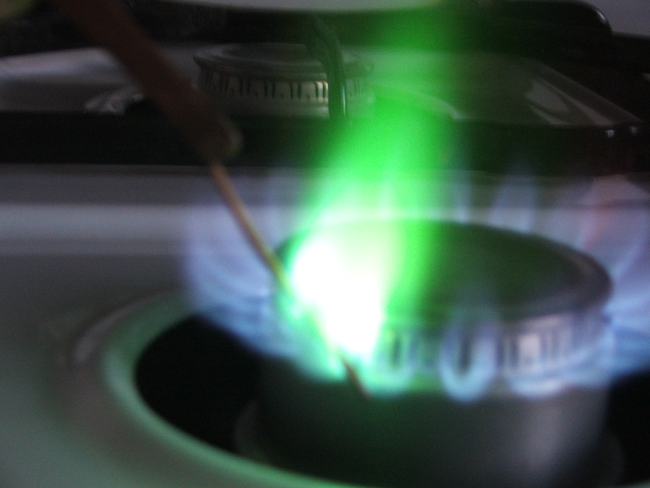 Copper wire in a flame test. The copper wire was previously dipped in HCl. The oxygen oxidizes the copper to copper oxide, which reacts with the hydrogen chloride fumes to make copper chloride, which gives the bright flame test color.